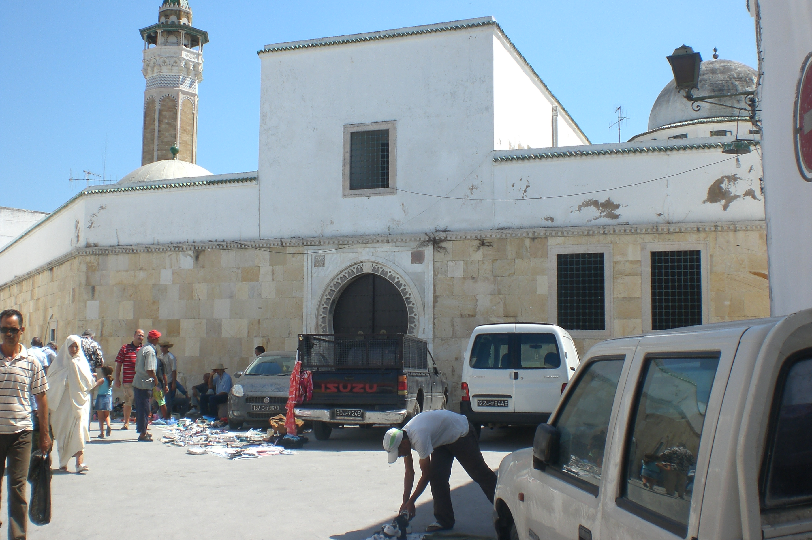 The Medressa Tabiiya-Halfaouine- Tunis